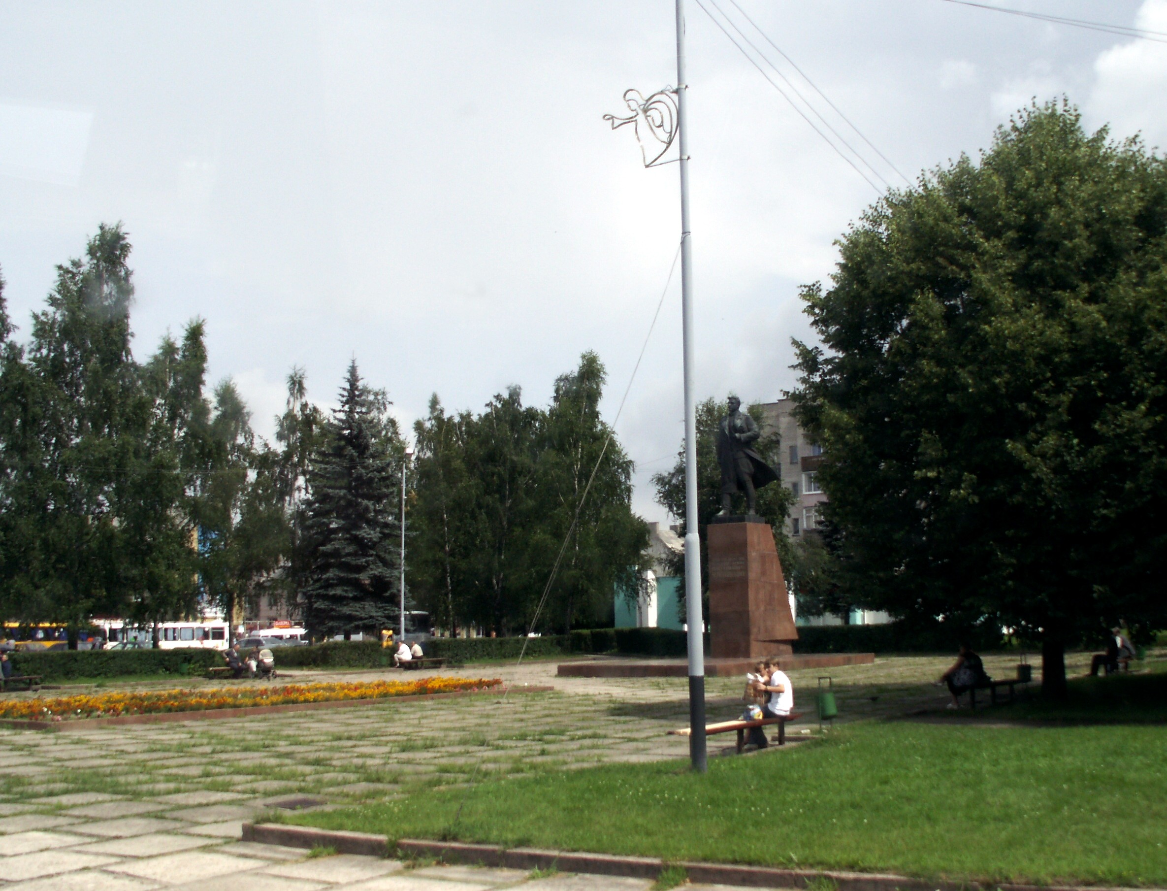 Chernyakhovsk, Kaliningrad oblast